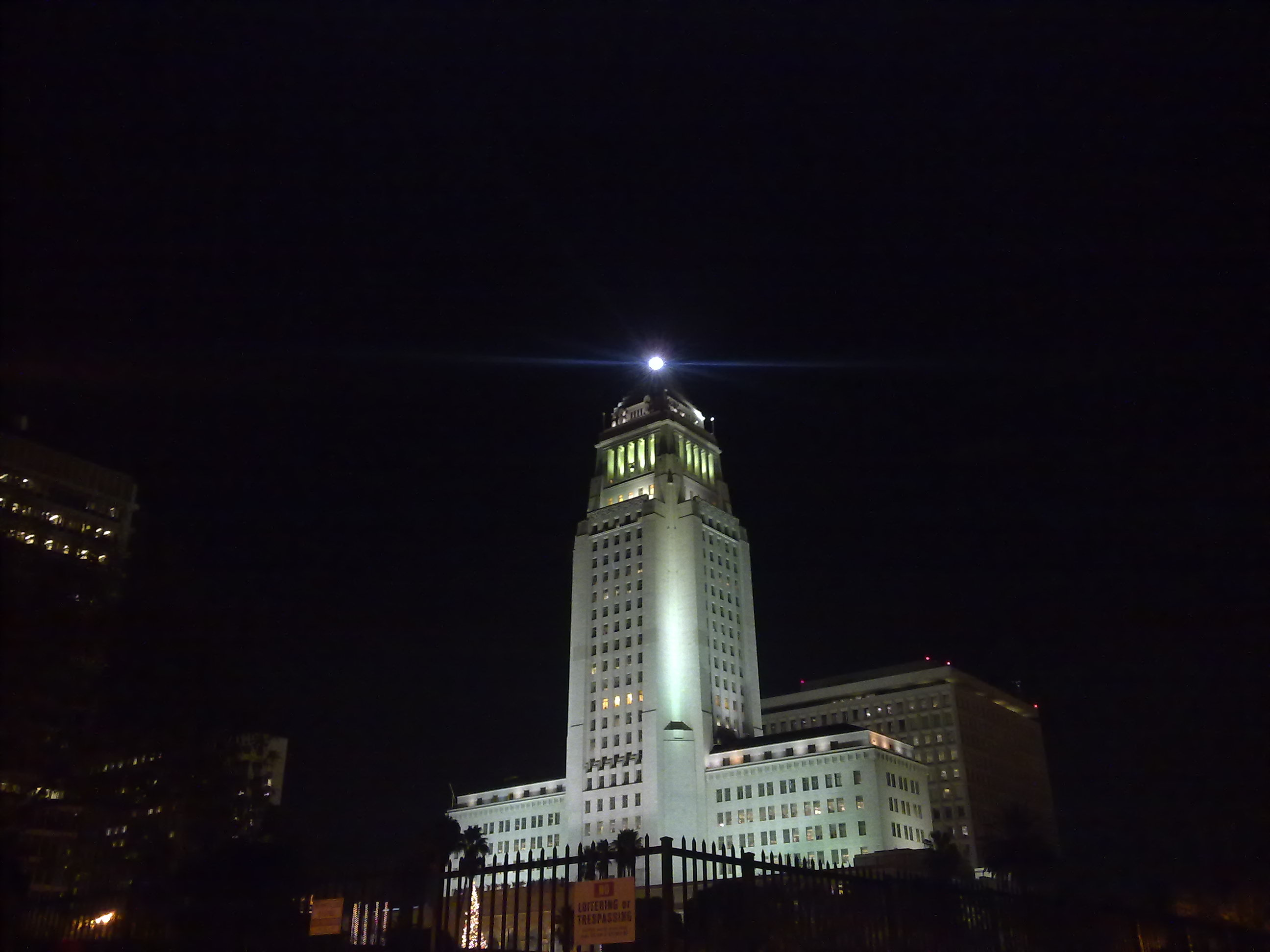 Lindbergh Beacon, Los Angeles City Hall, Los Angeles, California 2005